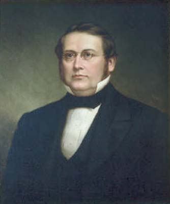 Thomas Pratt painting.